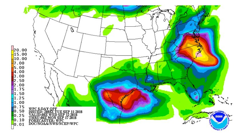 NOAA’s 5-day precipitation outlook for the period starting at 8 pm EDT Tuesday, September 11, 2018